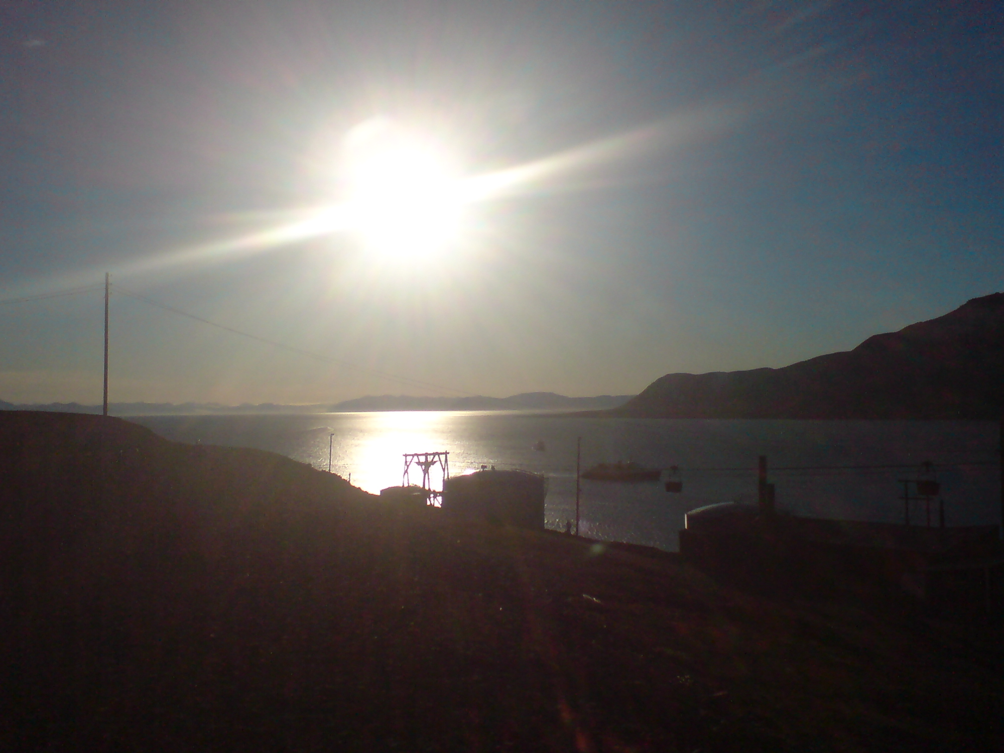 The midnight sun in Longyearbyen